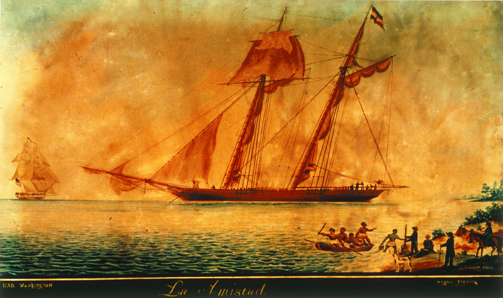 Contemporary painting of the sailing vessel La Amistad off Culloden Point, Long Island, New York, on 26 August 1839; on the left the USS Washington of the US Navy (oil painting)